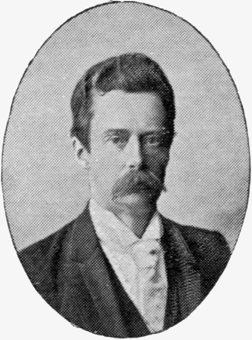 Carl Magnus Zander (1845-1923), Swedish linguist, author and professor of latin at Lund University 1891-1910.